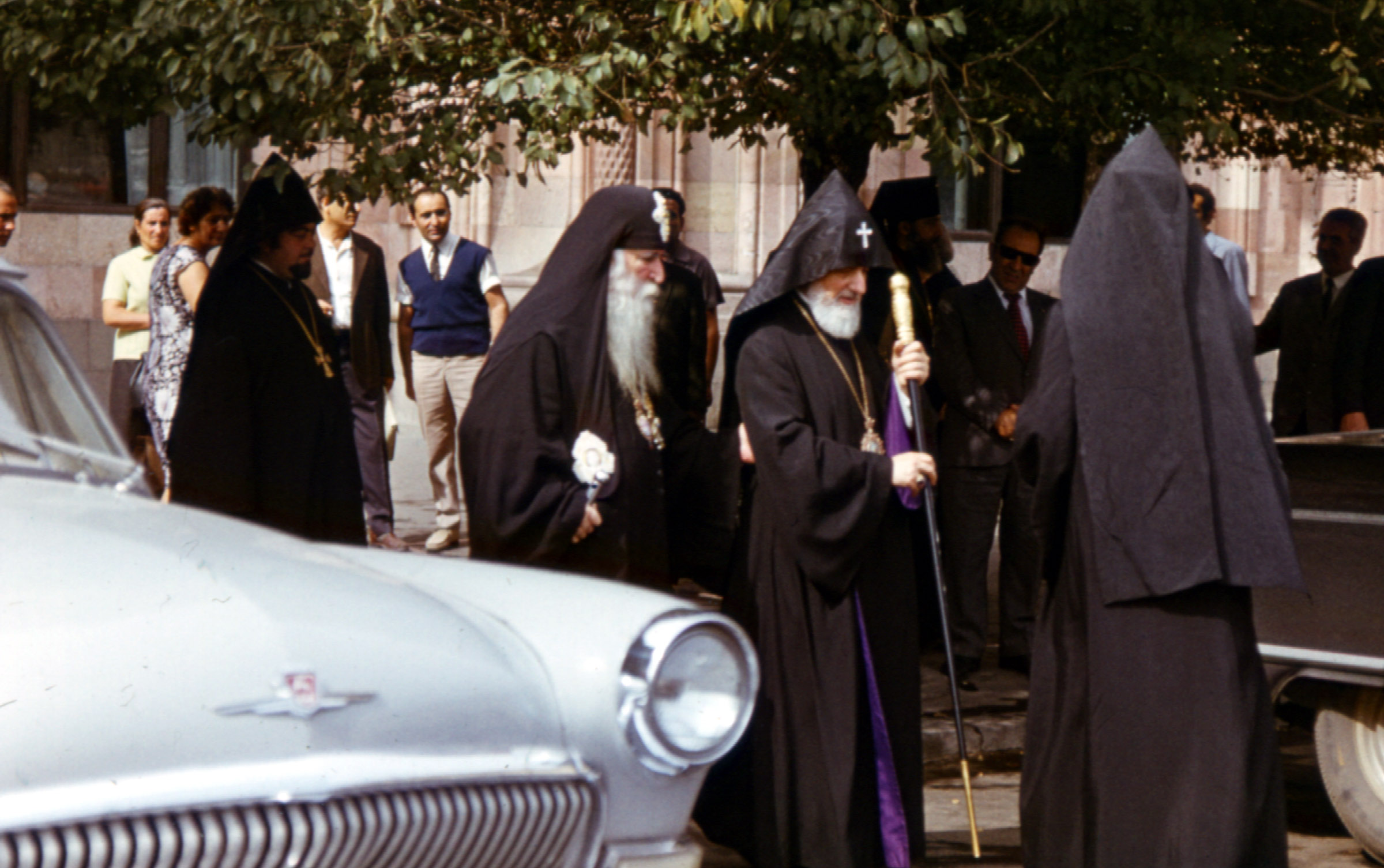 Meeting of Catholicoi of Armenia and Georgia - October 1972